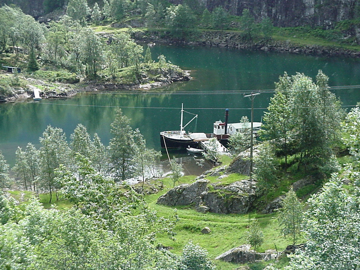 Suldalsvantnet with ferry "DS Suldal"